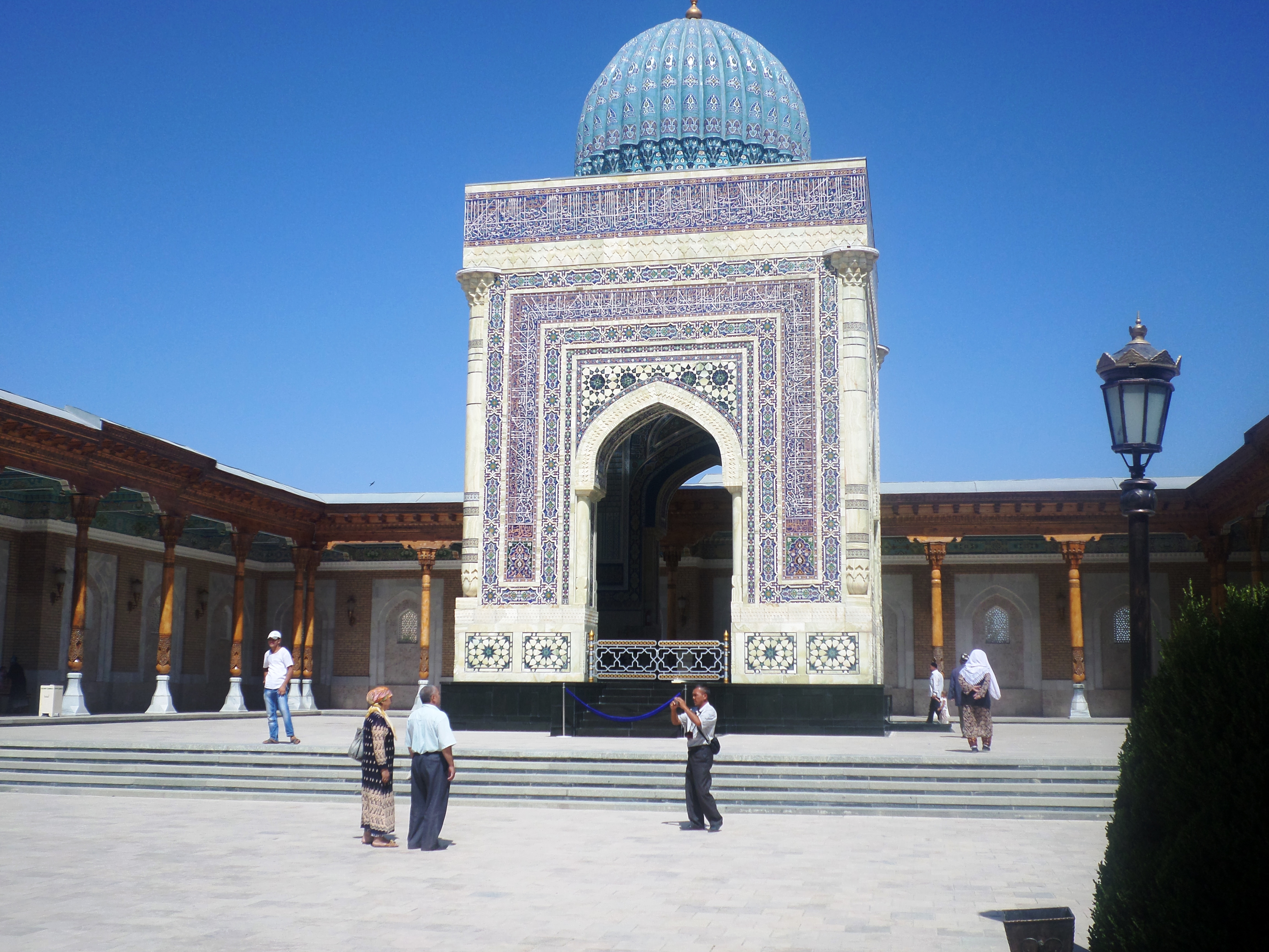 Al Bukhari Memorial, Samarkand